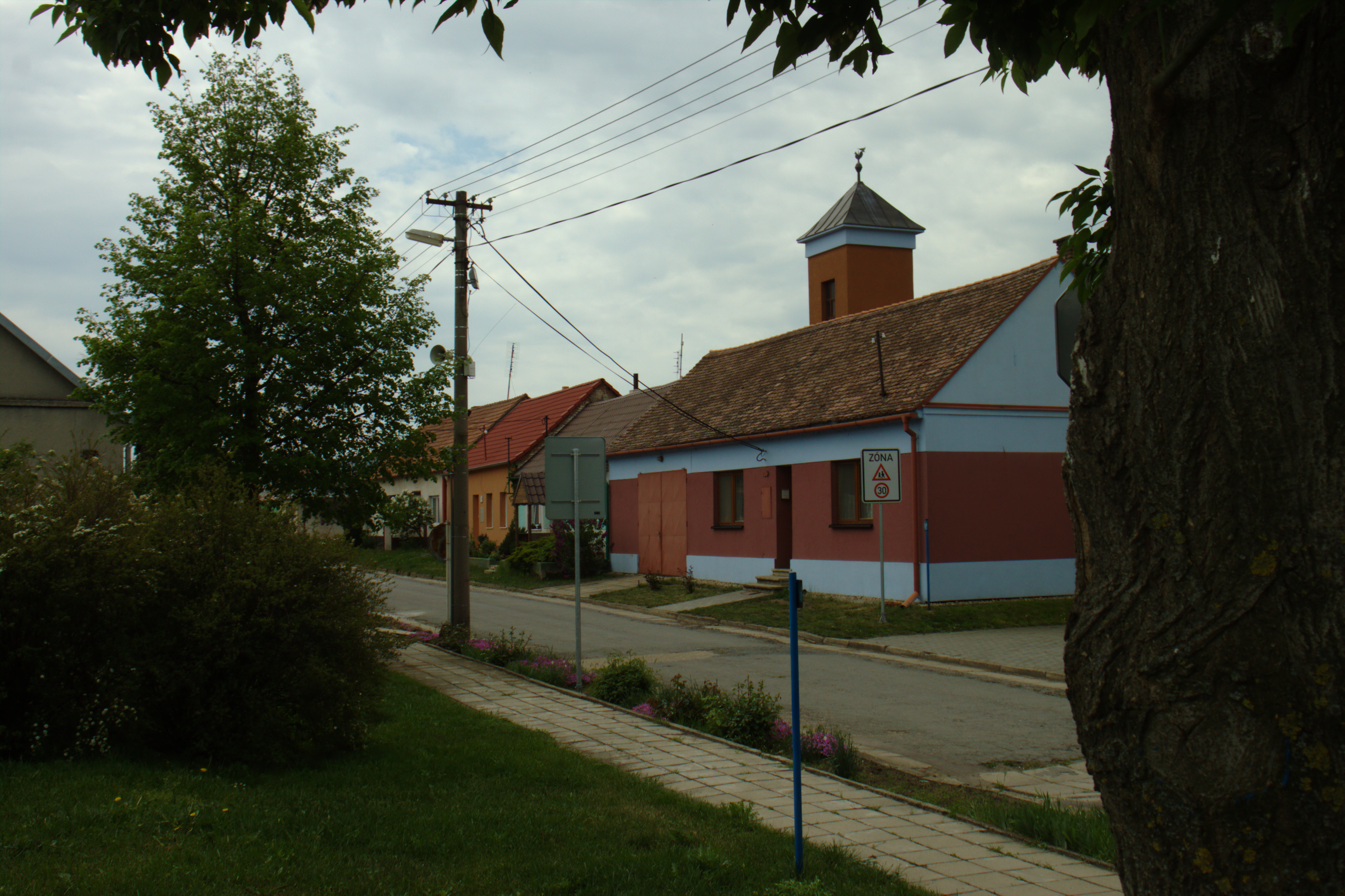 Buildings in the central part of the village of Čejkovice, South Moravian Region, CZ